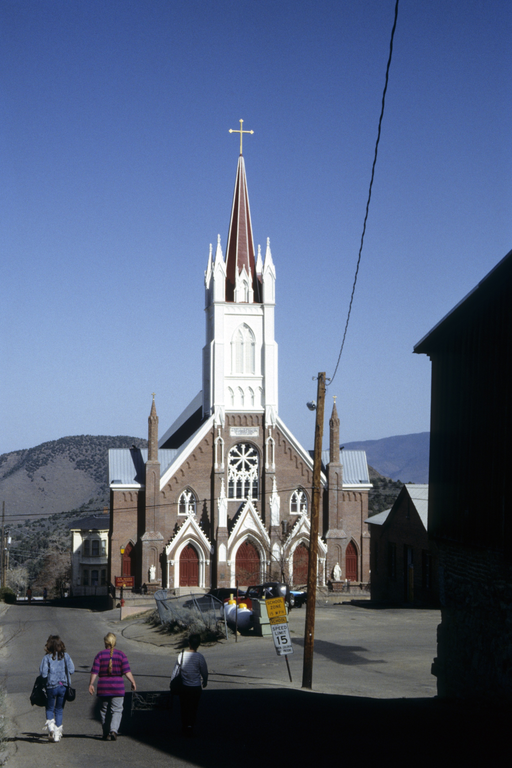 Catholic Church Saint Mary of Virginia City, Nevada